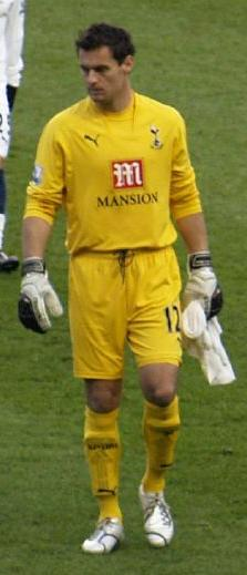 Czech football (soccer) player Radek_Černý